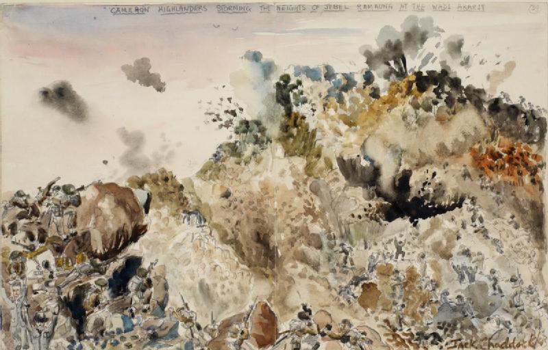 Cameron Highlanders Storming the Heights of Jebel Ramauna at the Wadi Akarit image: A view of several explosions on a hillside. Clouds of smoke fill the sky. Around of the base of the hill and in the foreground Allied soldiers can be seen moving, aiming and firing uphill. Several German soldiers can be seen emerging from the trees with their hands in the air, surrendering.